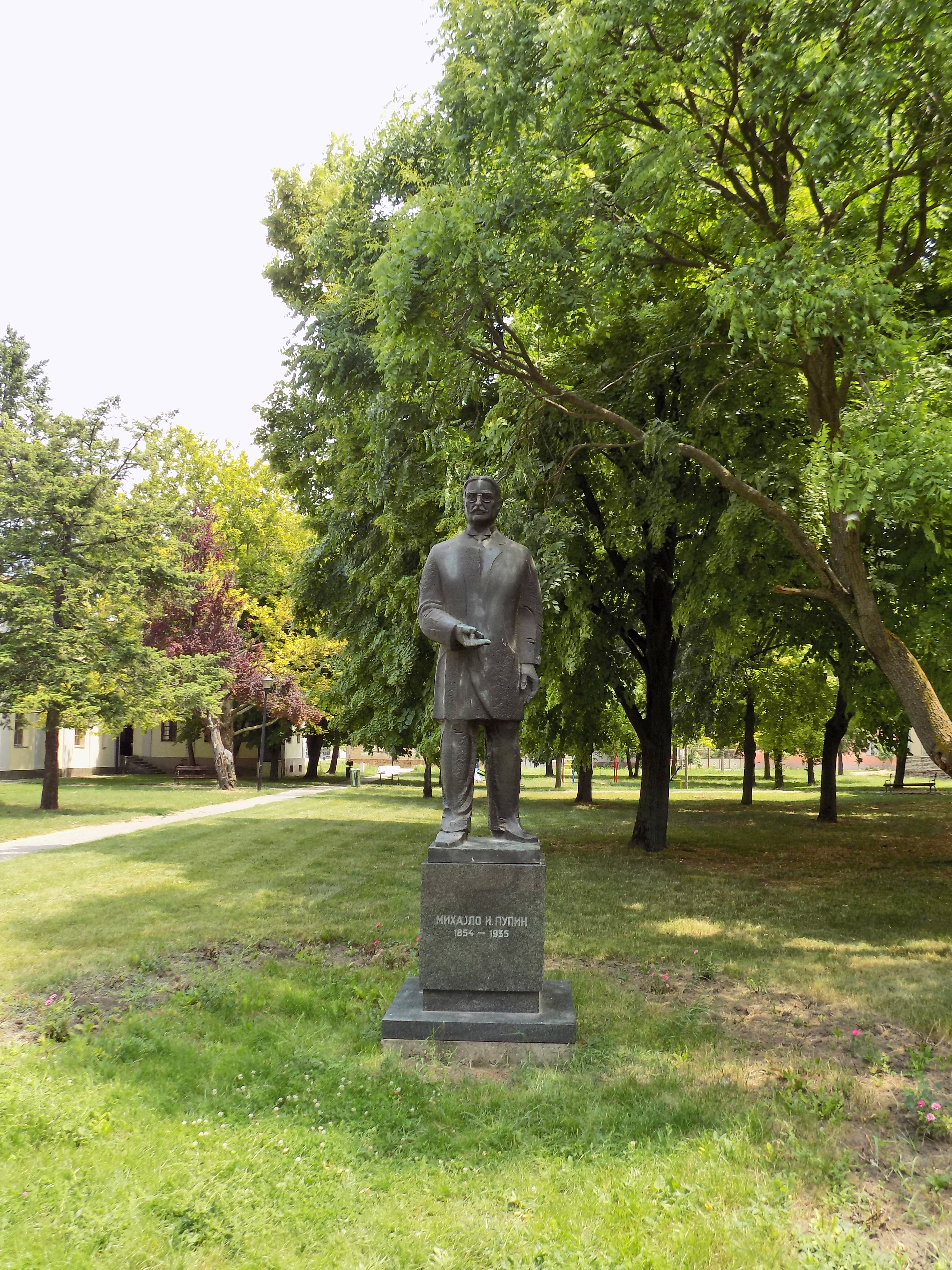 People's House of Mihajlo I. Pupin, Pupin's endowment in his native village of Idvor - a monument to Mihajlo Pupin in the park in front of the endowment. The monument is the work of sculptor Aleksandar Zarin